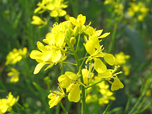 Indian mustard flower (Brassica juncea L. Czern) in Hisar, Haryana, India